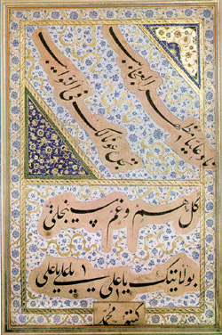 An Ottoman manuscript in Ta'liq Script.